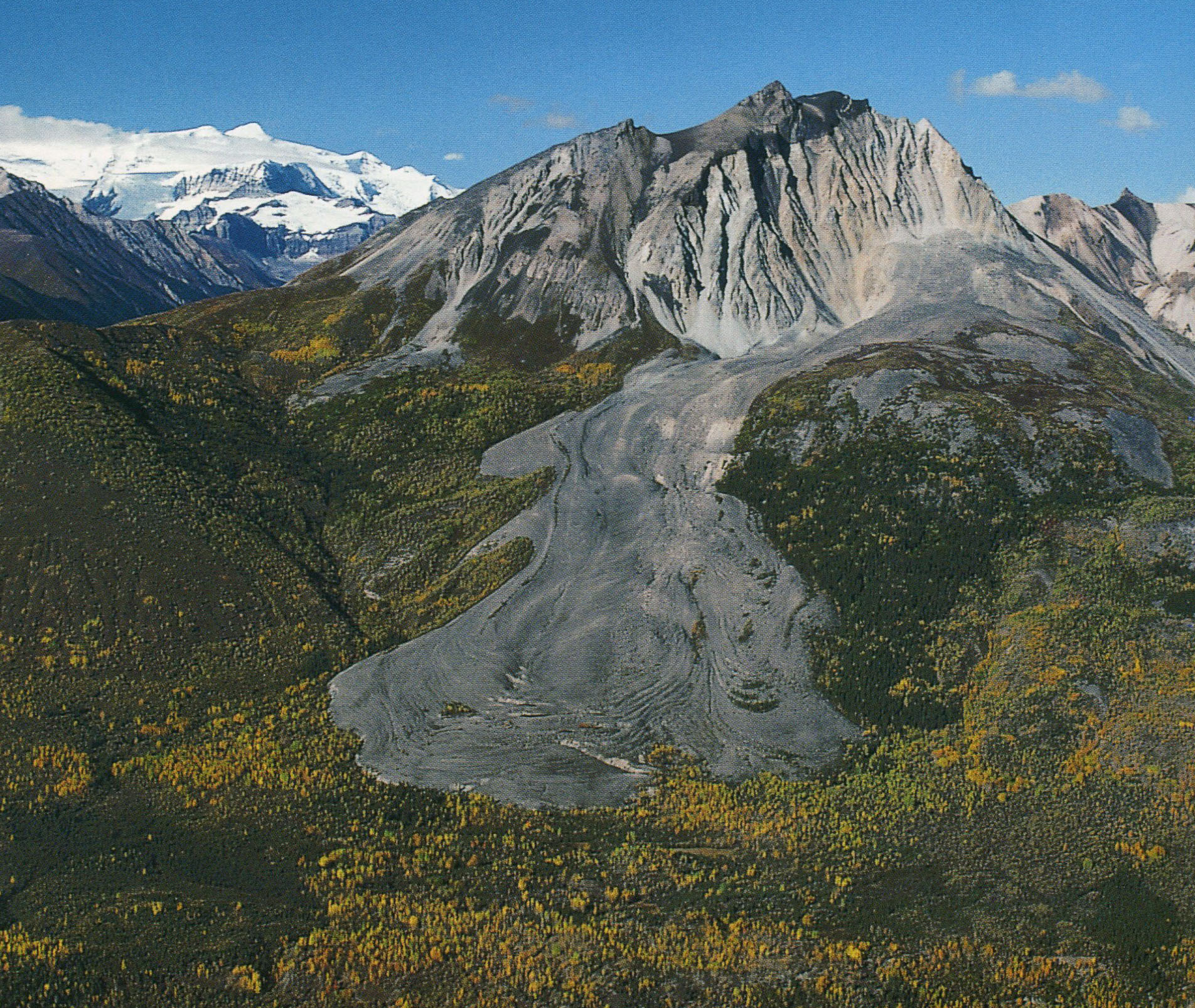 A rock glacier flows down from Sourdough Peak in the heart of Wrangell-St. Elias National Park (Alaska).